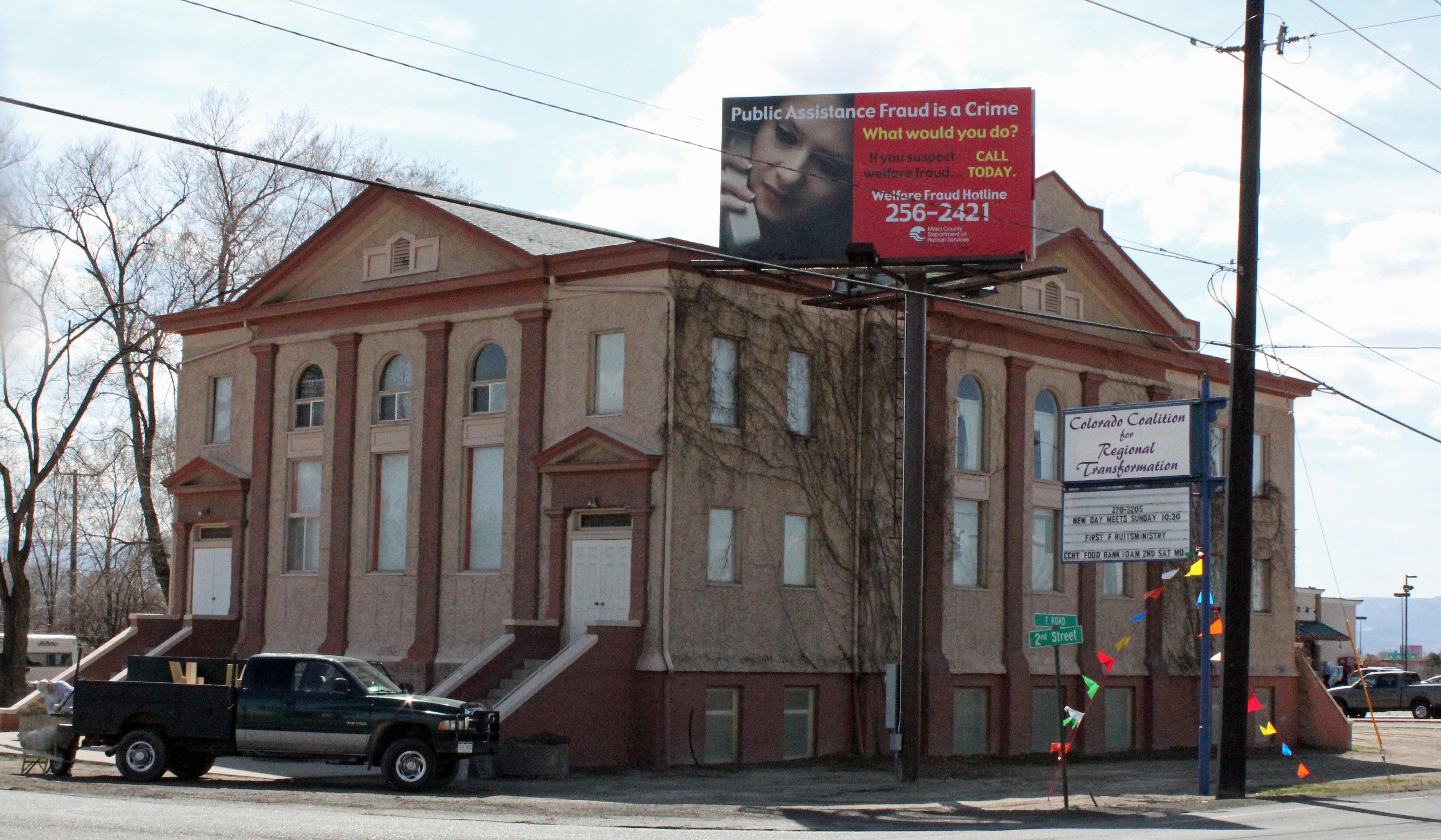 The Clifton Community Center and Church, located at the intersection of F Road and 2nd Street in Clifton, Colorado. The property is listed on the National Register of Historic Places.